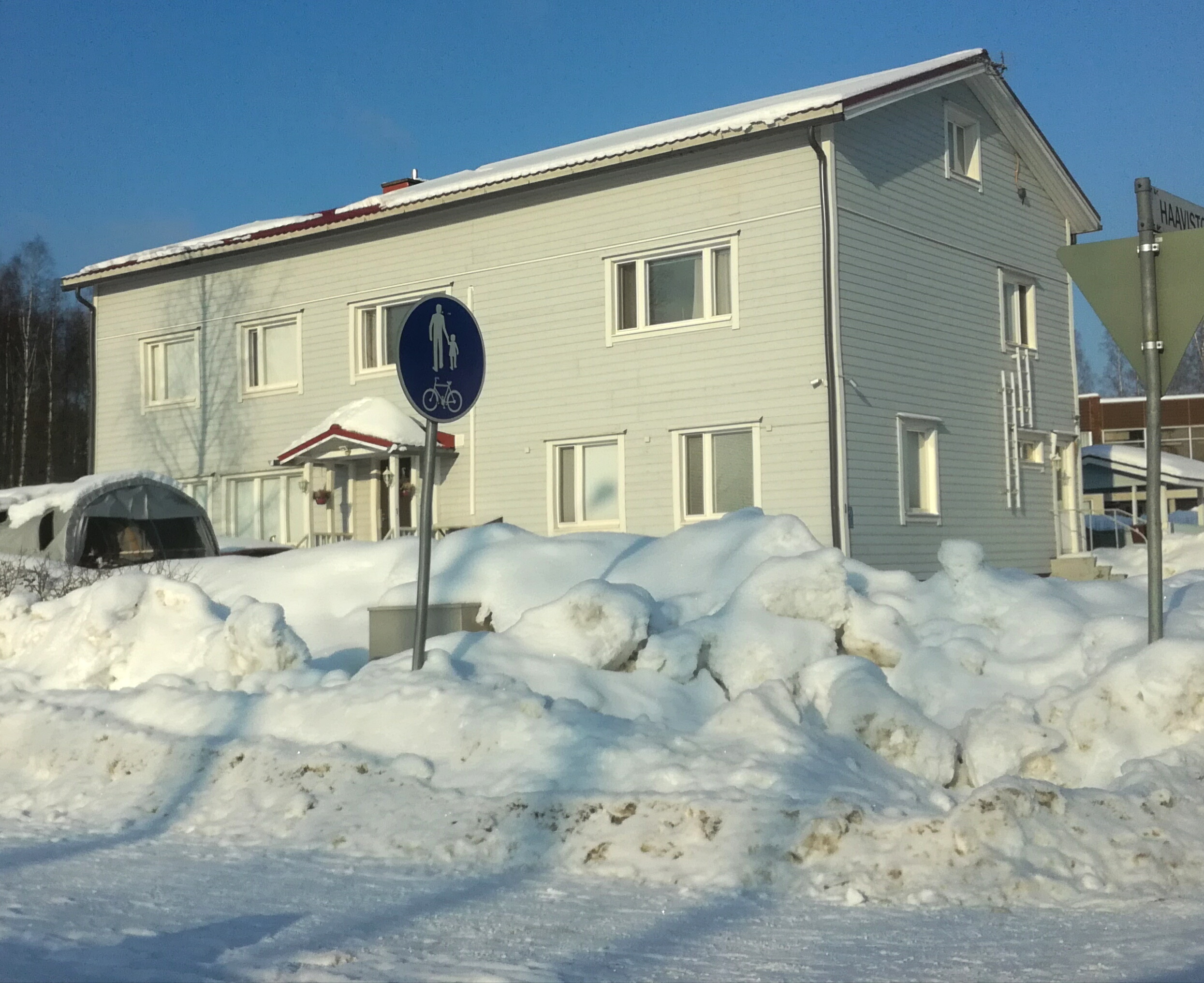 An apartment building built in 1961 in Vihtavuori, Laukaa, Finland